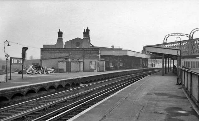 Brixton Station (Main line). View eastwards, towards Herne Hill, Bromley South etc., also Loughborough Junction (to left); ex-Chatham (LC&DR) main line Victoria - Kent Coast, with connection here to South London Line at Loughborough Junction - which crosses over on the girder bridge on right, going towards Battersea Park and Victoria.